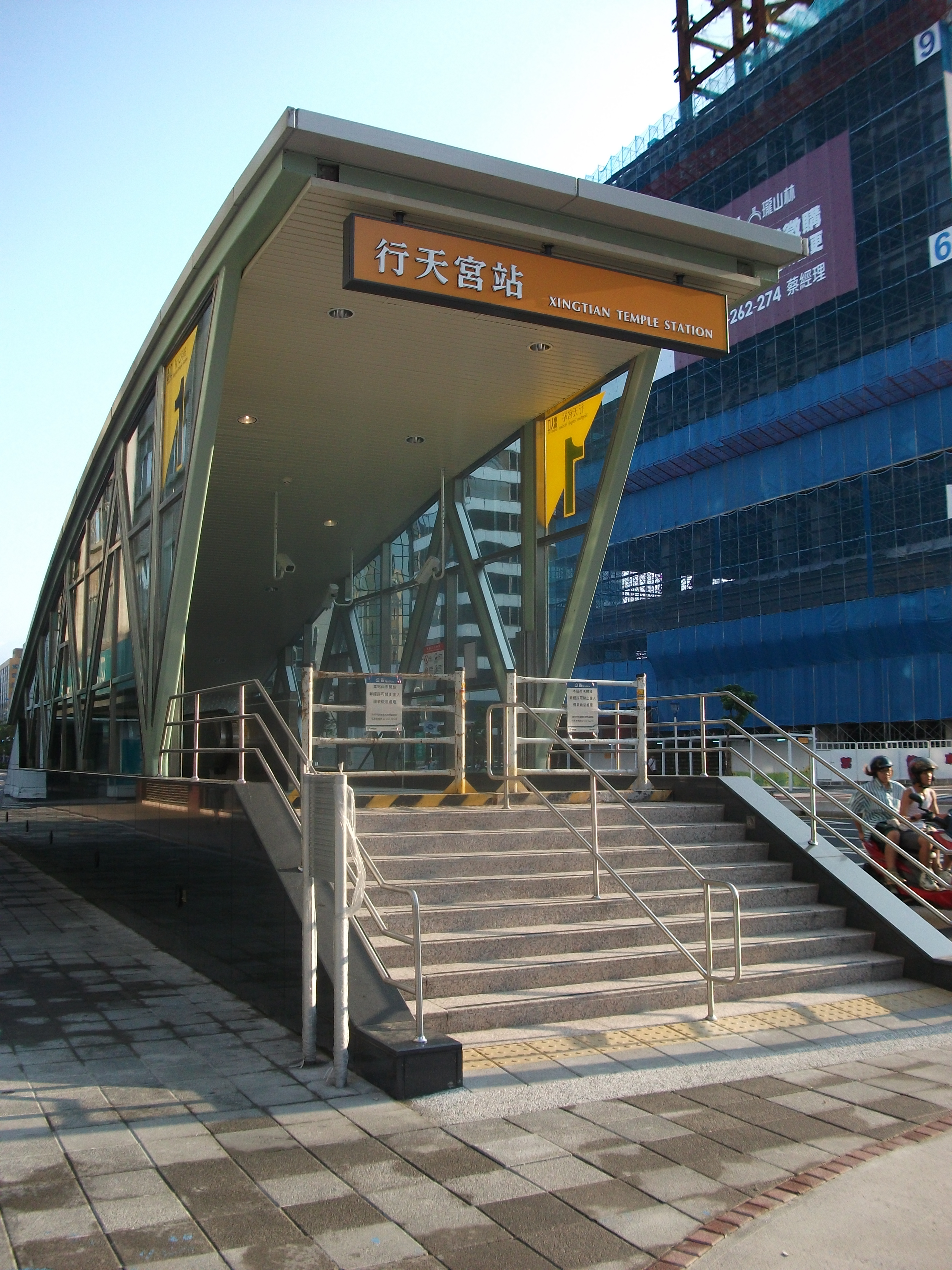 Exit 1, Xingtian Temple Station, Taipei Metro Orange Line